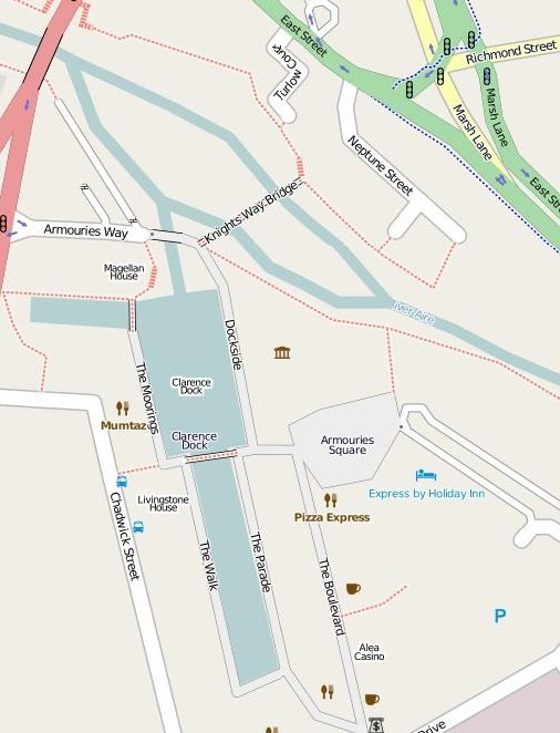 A map showing the Royal Armouries (museum) and Clarence Dock in Leeds, West Yorkshire. Copied from on the 29/09/2009